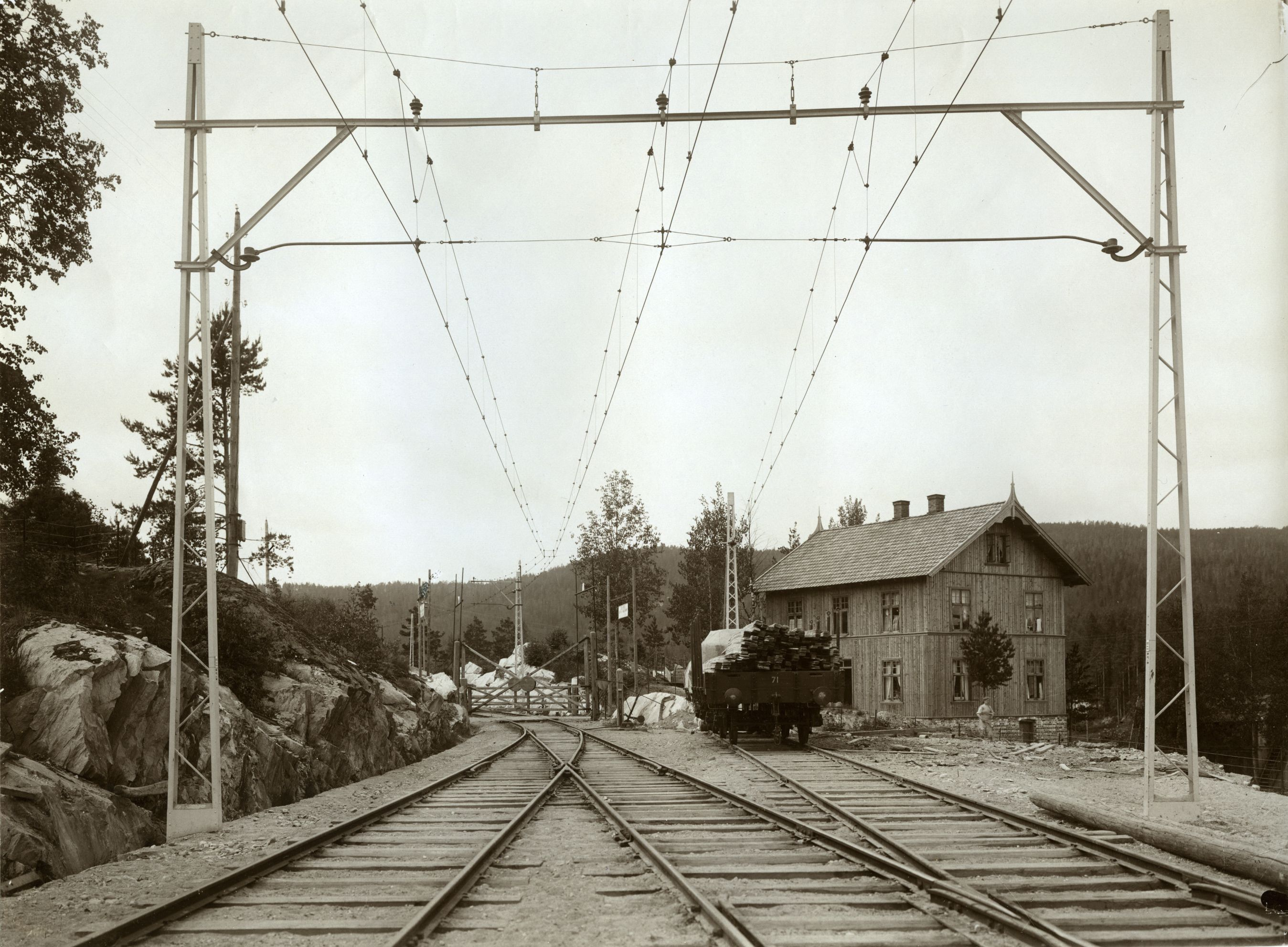 Joch über 3 Gleise auf Bahnhof Lilleherred